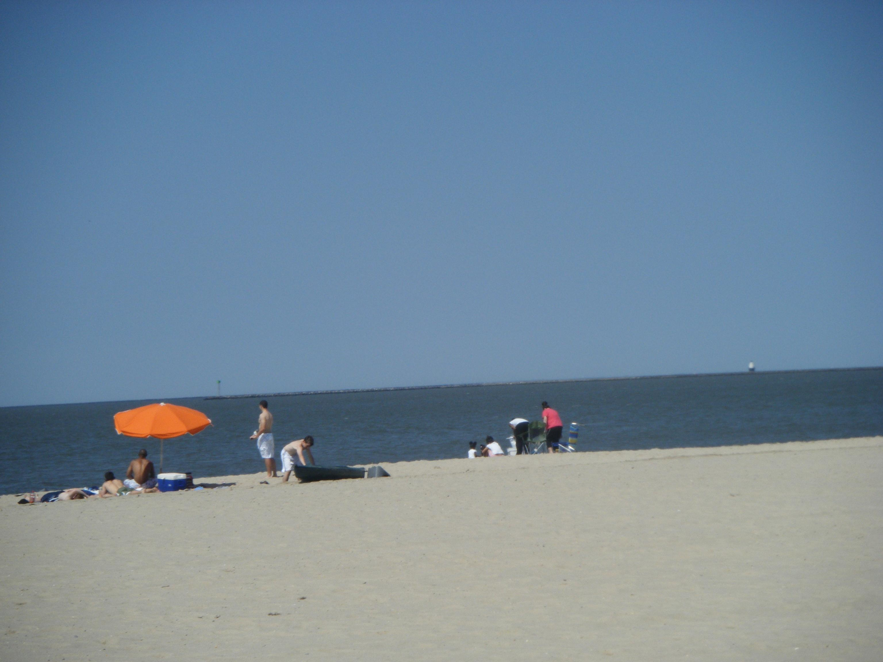 A view of Lewes Beach on the Delaware Bay from Savannah Road.